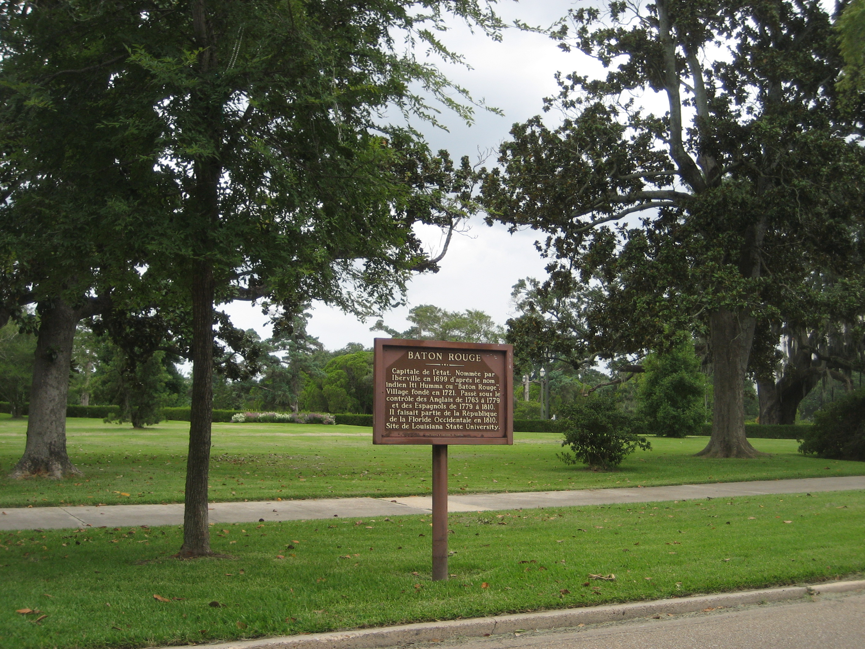 Central Baton Rouge, Louisiana. Park near State Capitol building has history sign in French.